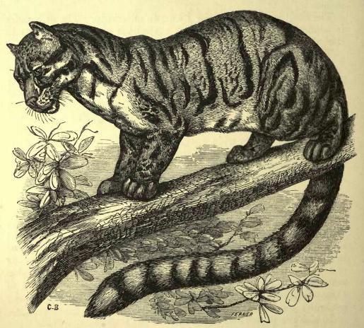 Clouded Tiger / Clouded Leopard